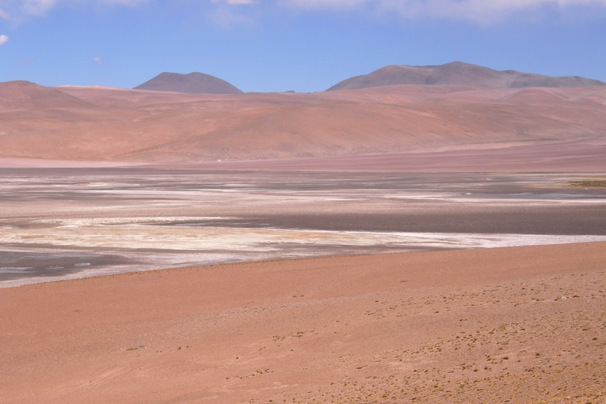 Salar de Quisquiro (4190 m a.s.l.) on the way to Paso de Jama, about 25 km from Argentina, San Pedro de Atacama, Chile.